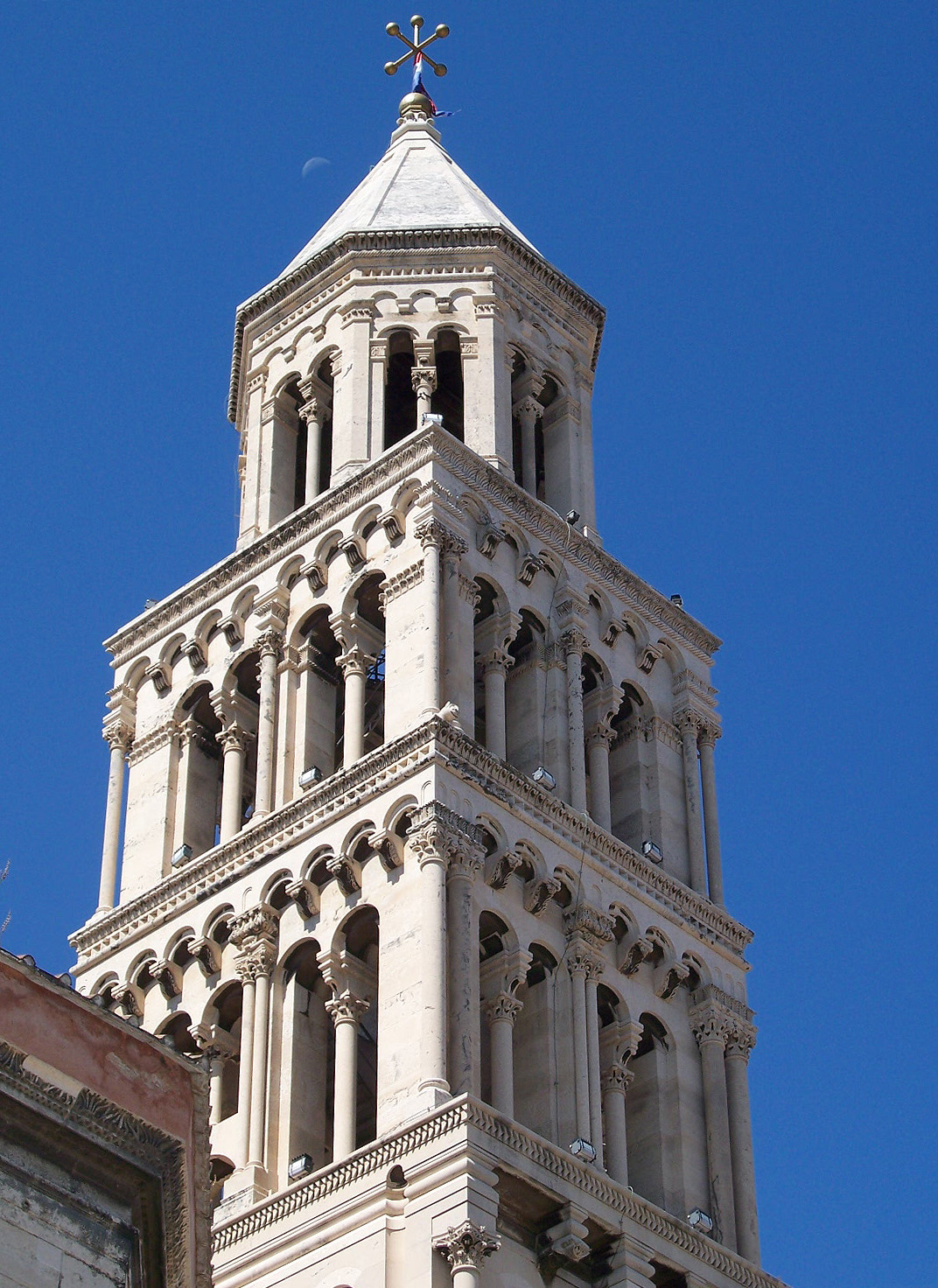 Cathedral of Split